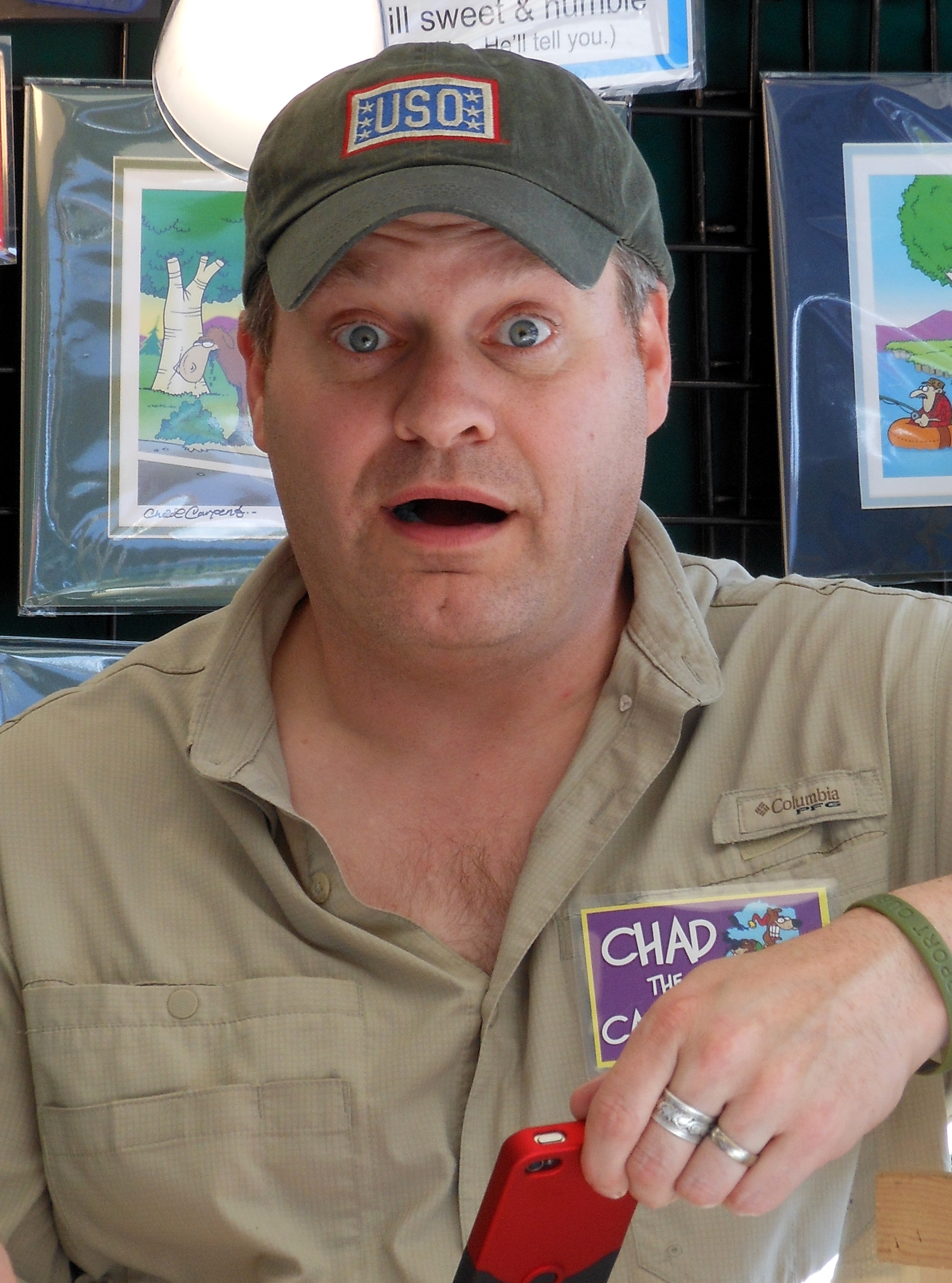 Cartoonist Chad Carpenter is shown maintaining the booth for his Tundra franchise at the 2012 Tanana Valley State Fair. I was walking through the fair taking photos when I see Carpenter reading something on his phone. In an instant, I readied my camera, called out his name, he looks up, sees the camera and puts on a perfect expression feigning shock and surprise.